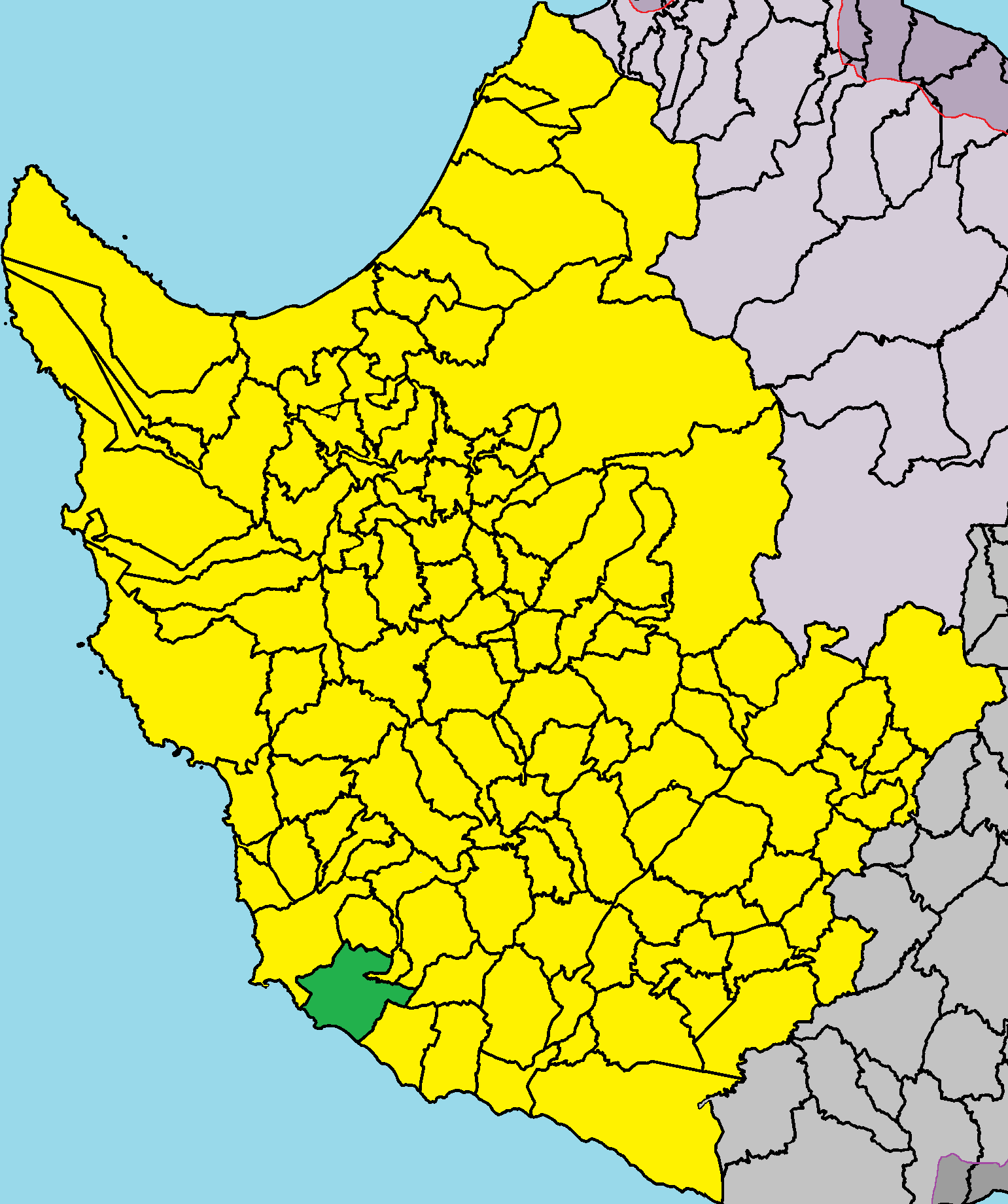 Geroskipou in Paphos District.